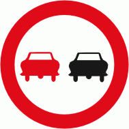 Diagram of road signs of Luxembourg